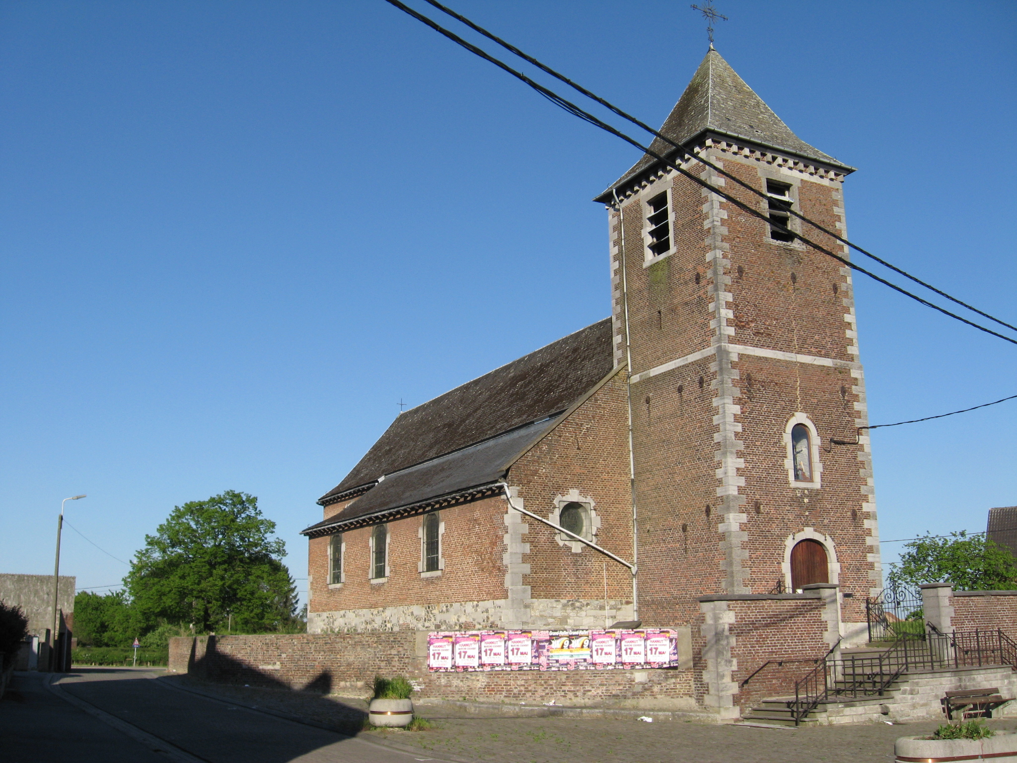 Church of Saint Martin in Villers-le-Peuplier, Hannut, Liège, Belgium